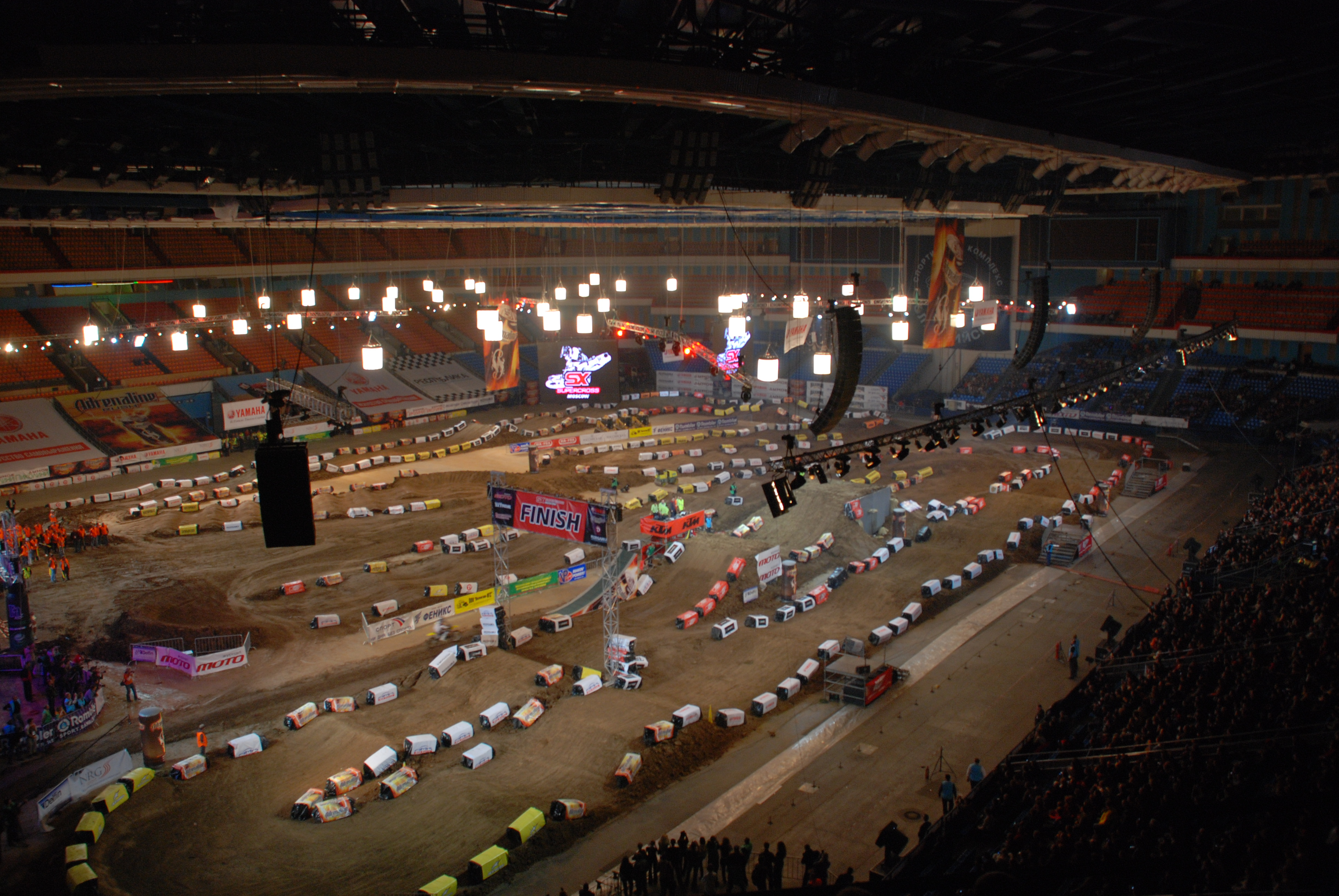 SX Moscow 2007